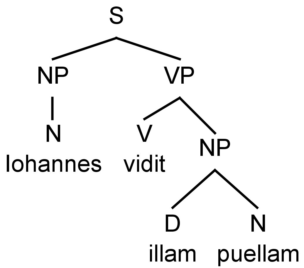 Better tree showing the syntax of the Latin sentence "Iohannes vidit illam puellam" roughly "John sees the girl".